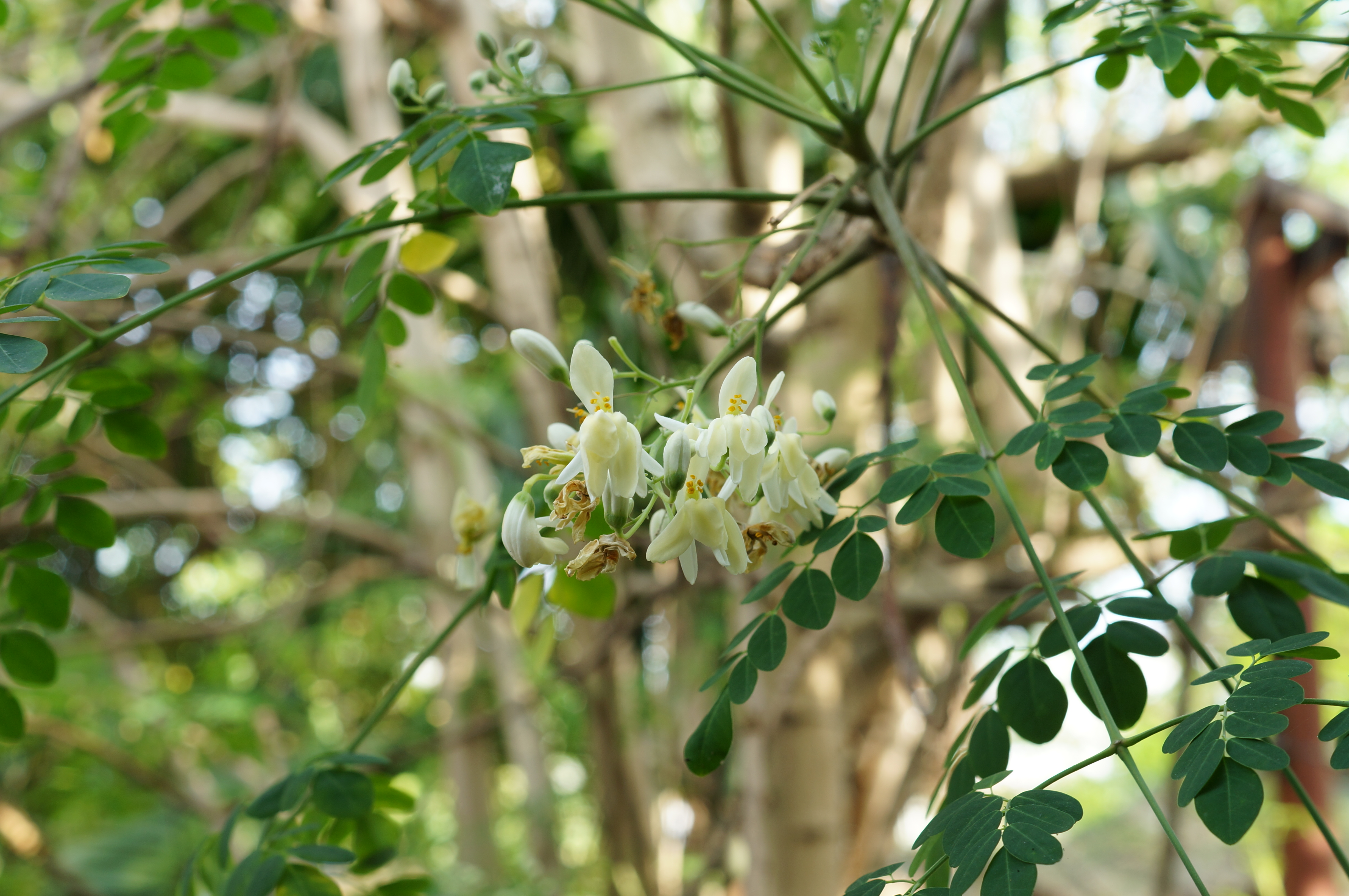 Moringa